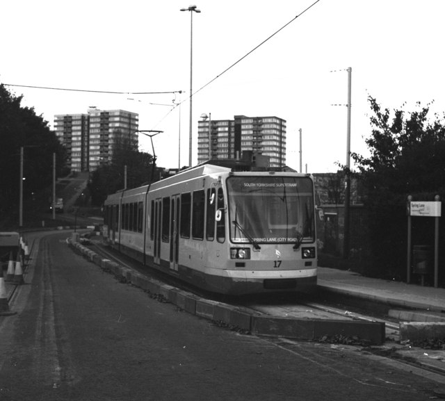 Park Grange Road, Sheffield The temporary terminus of Sheffield's initial tram service was at the junction of Park Grange Road and City Road, referred to on the cars as 'Spring Lane'. Here car 17 has just arrived.